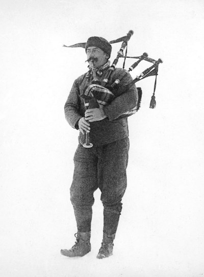 W. G. Burn-Murdoch playing bagpipes in polar environment. Burn-Murdoch, a Scottish artist, became a part of the Scottish National Antarctic Expedition in 1902-1904 headed by his friend William S. Bruce.